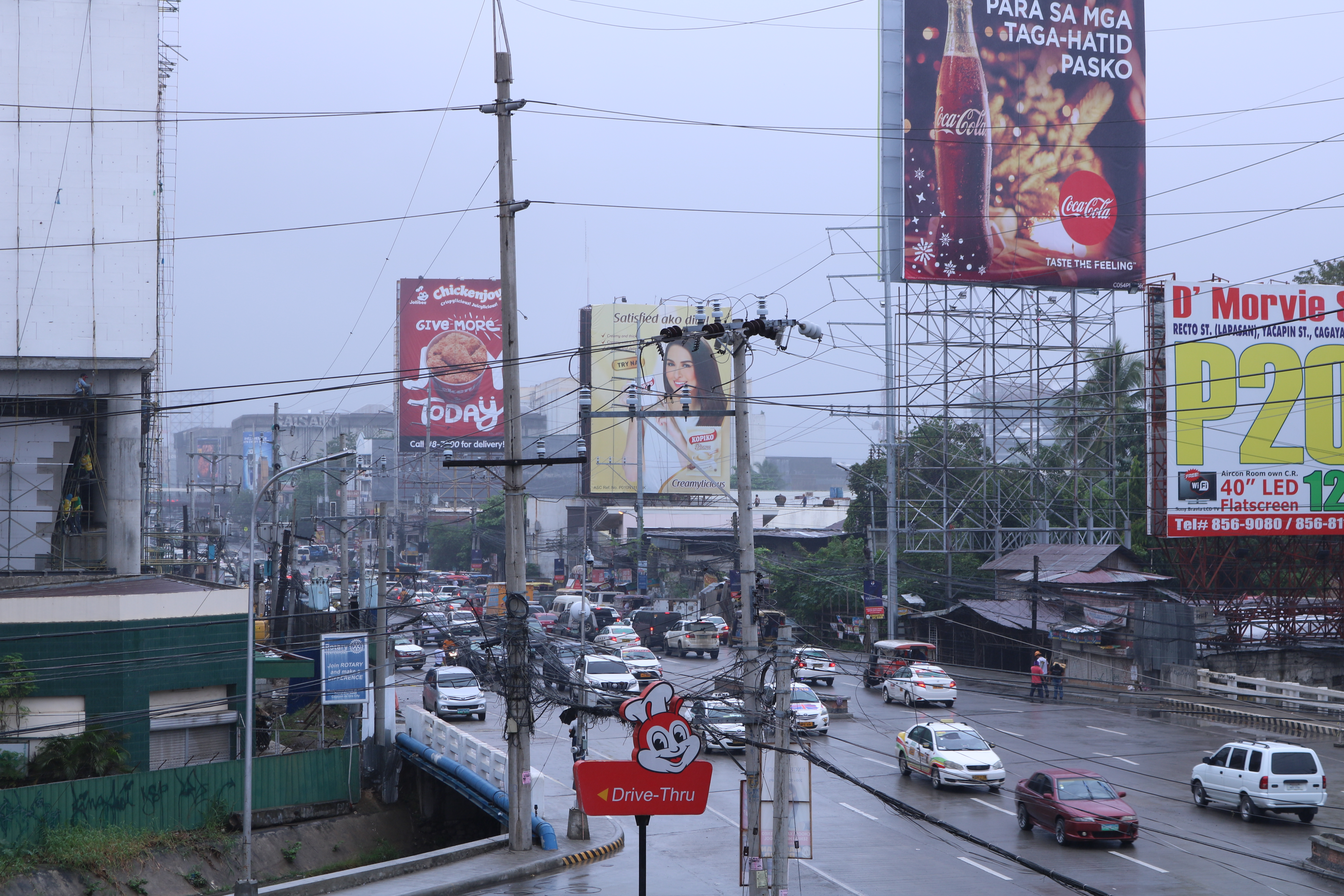 Traffic is getting more and more annoying as the time goes by in this booming city of Cagayan de Oro, Misamis Oriental.